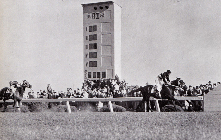 1957 Tokyo Yushun winner Hikaru Meiji